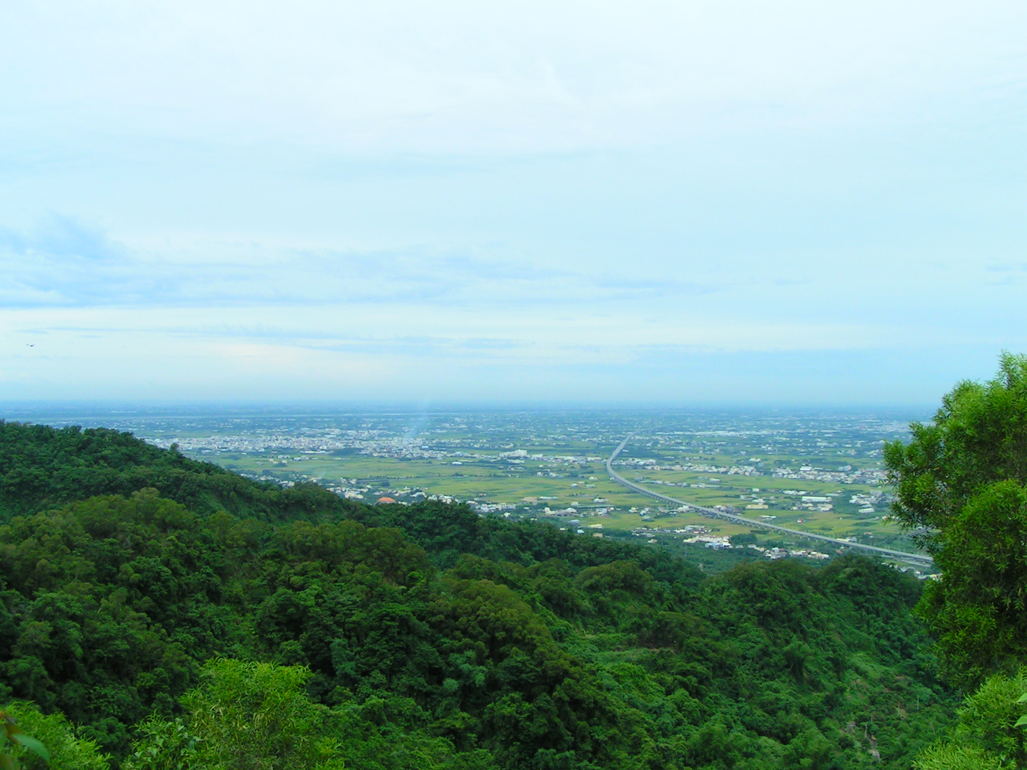 Looking down on Tianzhong from Houtanjing.